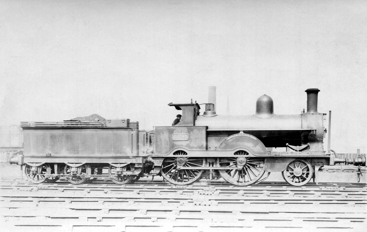 Photograph of LNWR engine No. 1194 'Miranda'